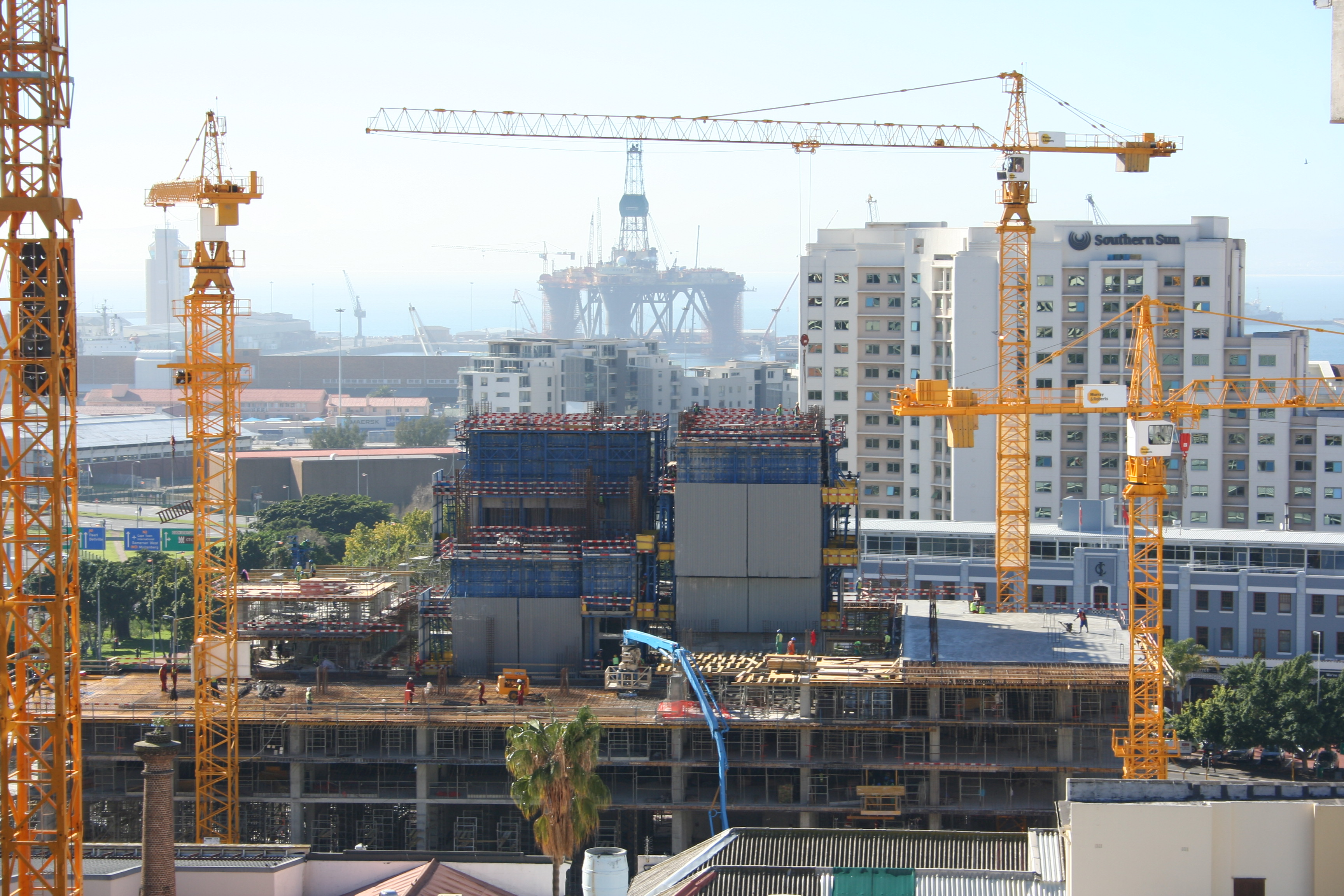 A picture of the Portside Tower under construction, facing North, in June 2012.